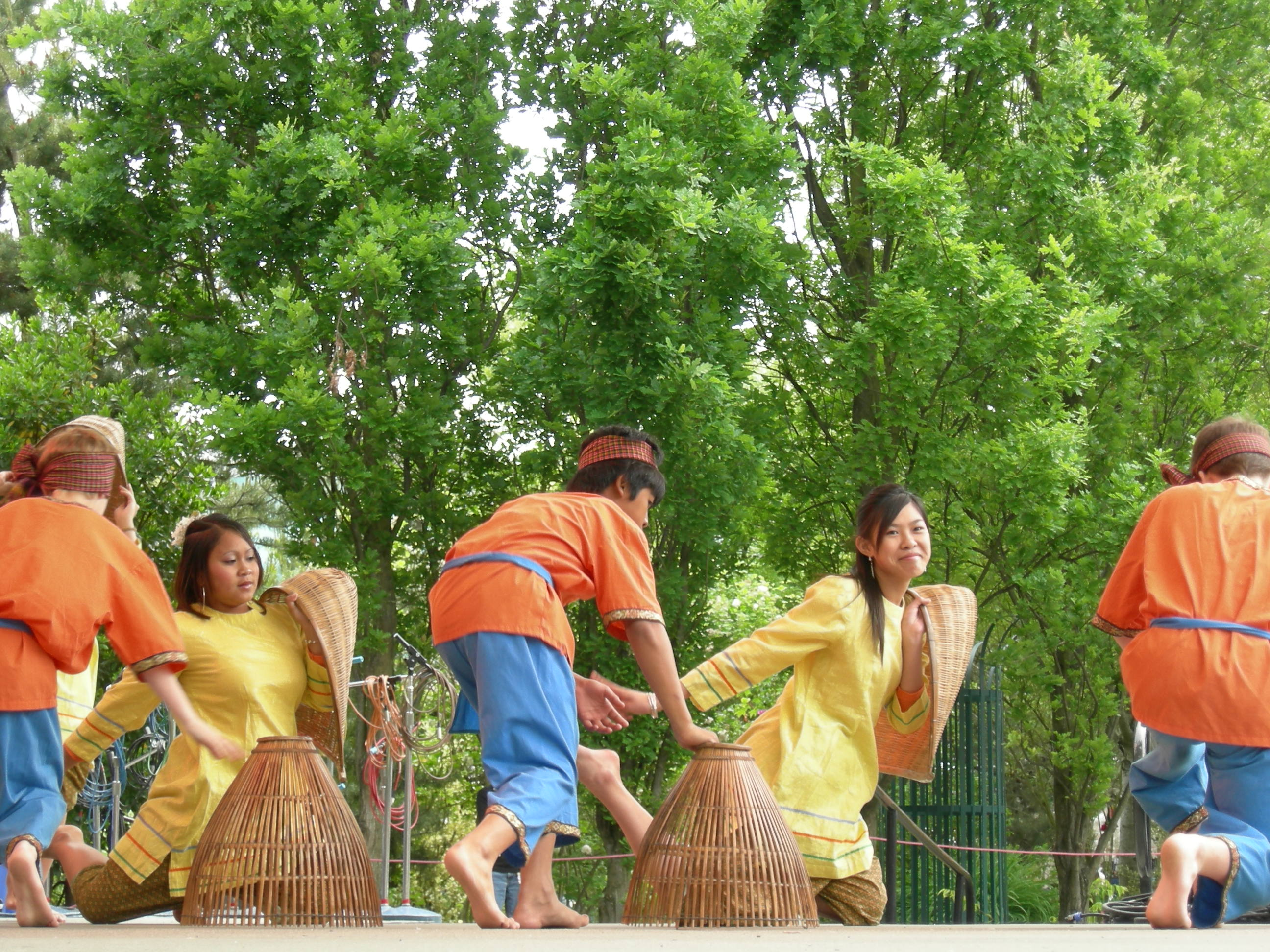 Cambodian folk dance involving fishing baskets, Northwest Folklife Festival, Seattle Center, 2007.